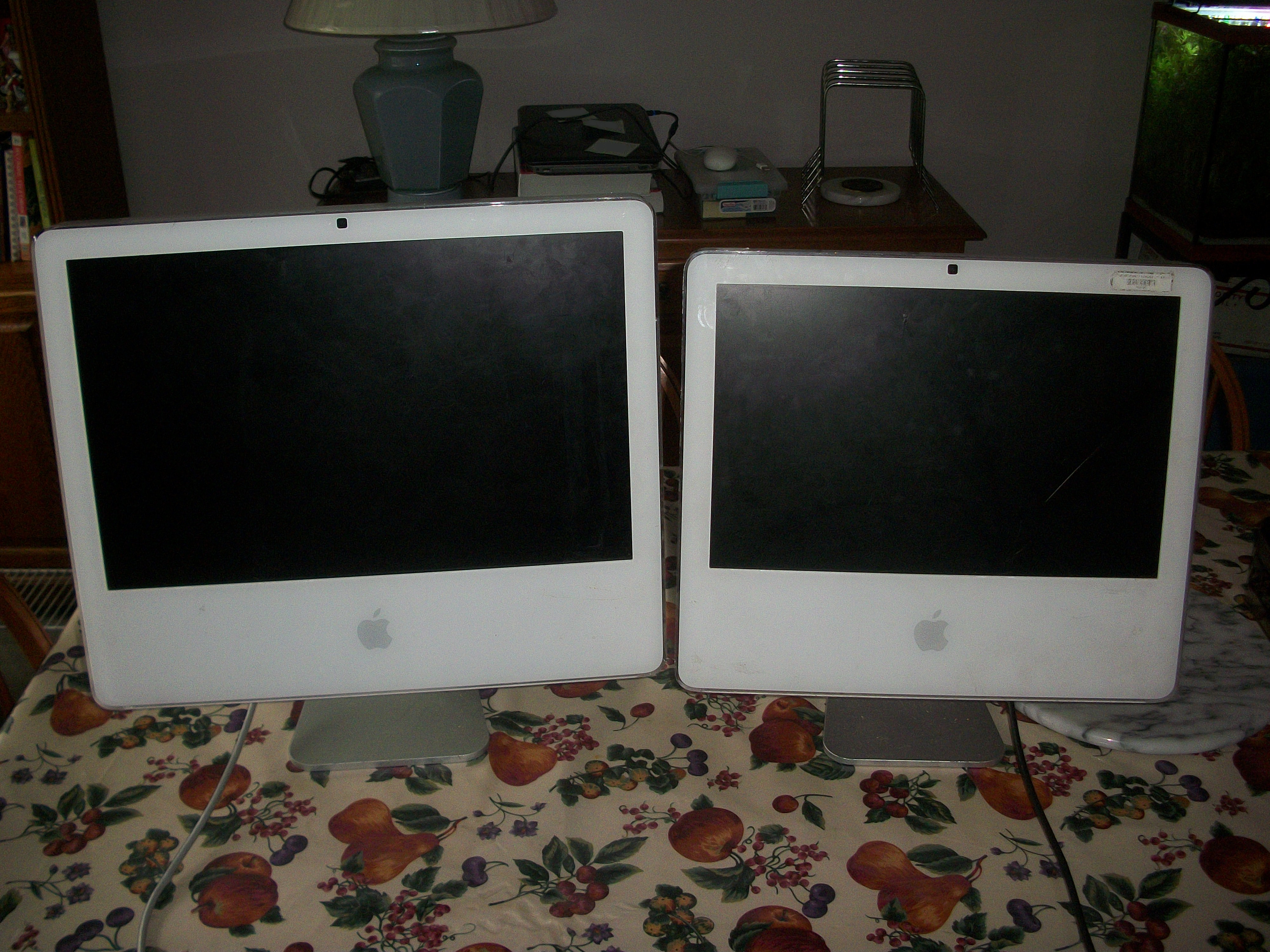 A 17" and 20" iMac from late 2006.